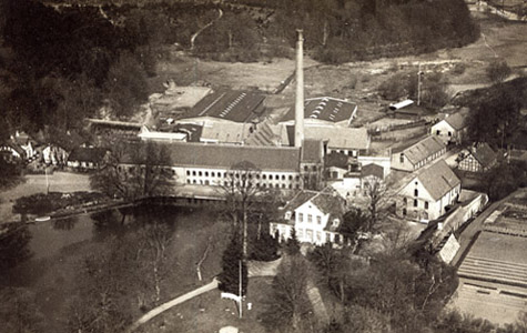 Ørholm Mølle in Lyngby north of Copenhagen, Denmark